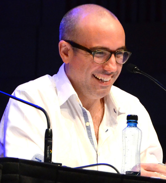 Julian Morrow of The Chaser at Australian Skeptics National Convention 2014 (cropped).